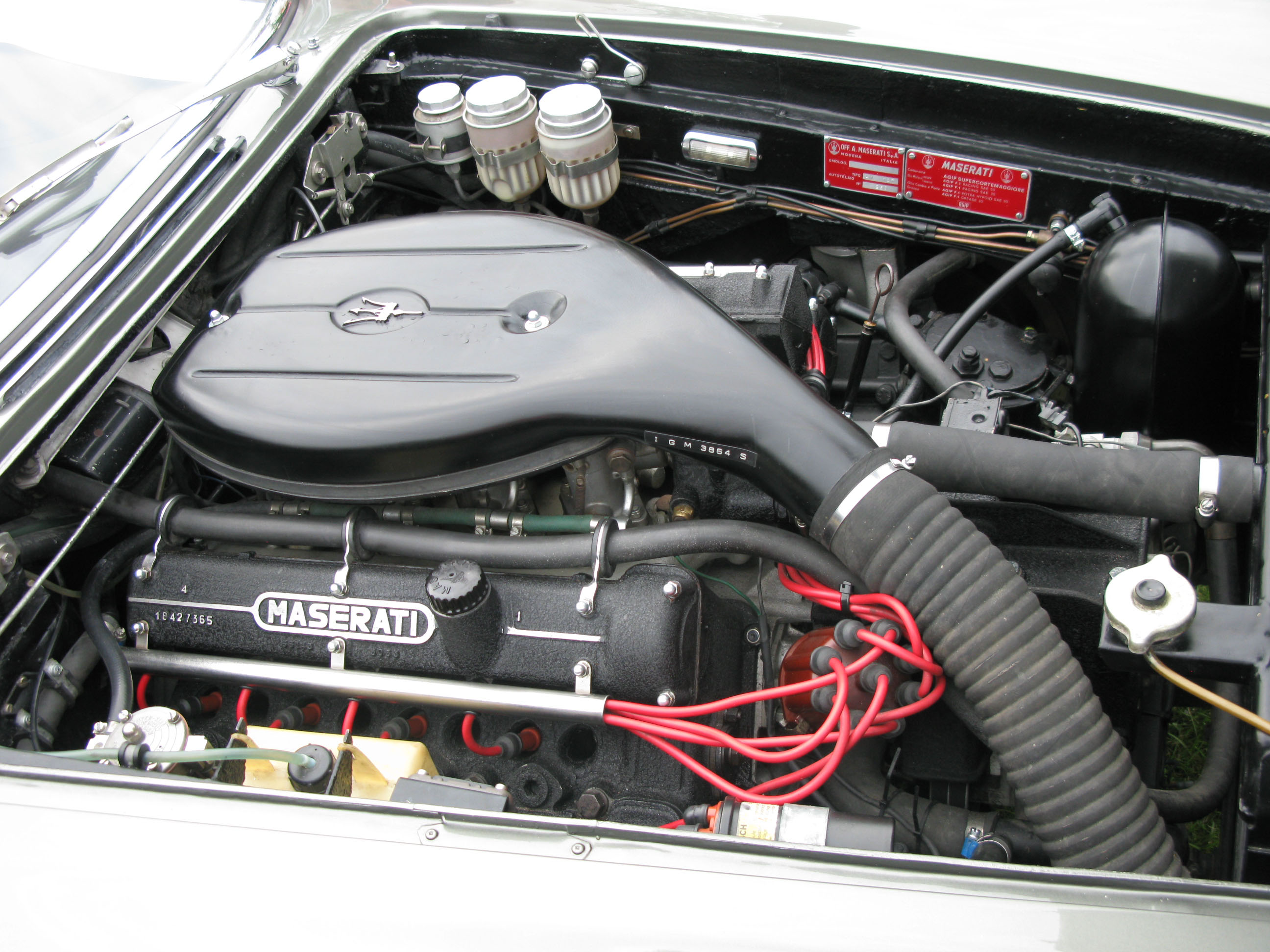 1965 Maserati Quattroporte V8 engine.